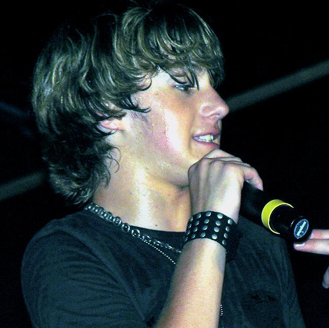 Paparazzo's photo of teen idol, singer Stevie Brock in concert at Dixie Landin / Blue Bayou in Baton Rouge, Louisiana on June 26, 2004.